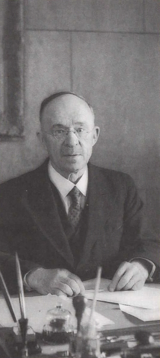 Eemil Hynninen, director of Alko